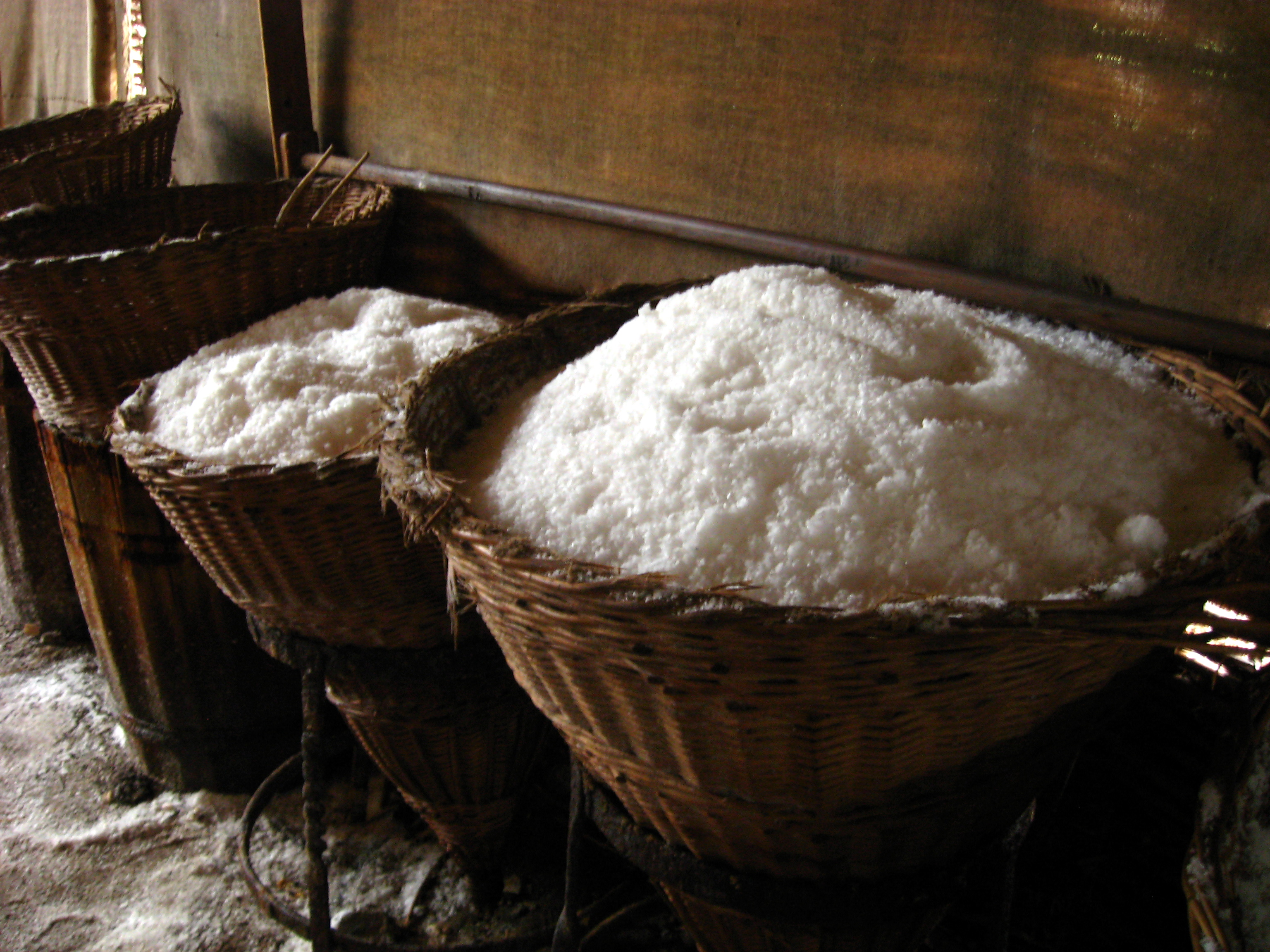 Salt-works on Læsø, Denmark